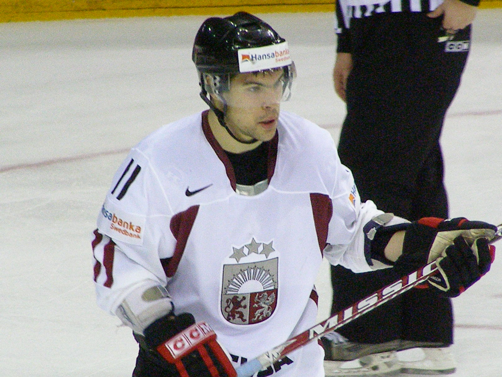 Kaspars Daugaviņš/Latvia VS Slovenia (IIHF World Hockey Championship in Halifax NS, May 6 2008)/